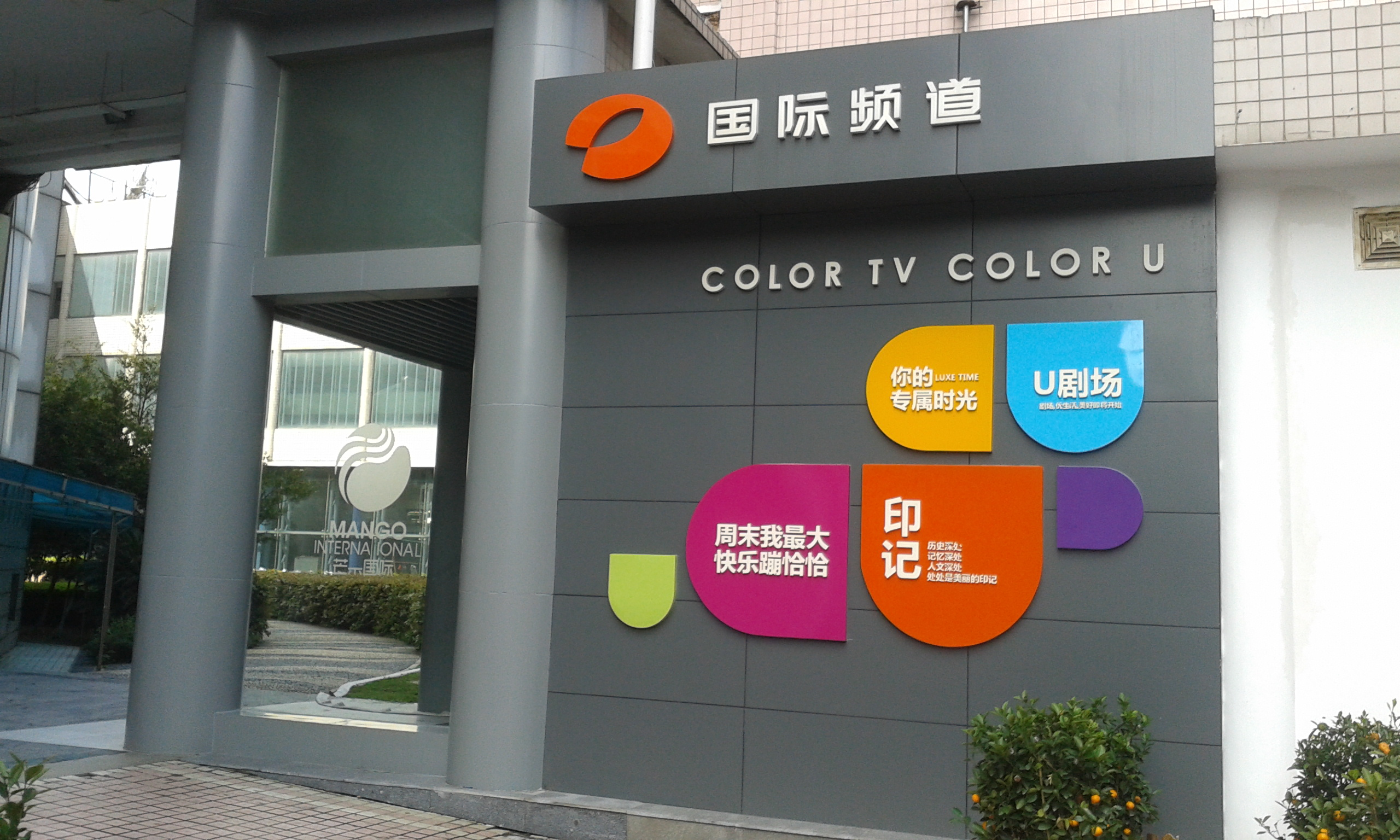 HNTV World Channel Office